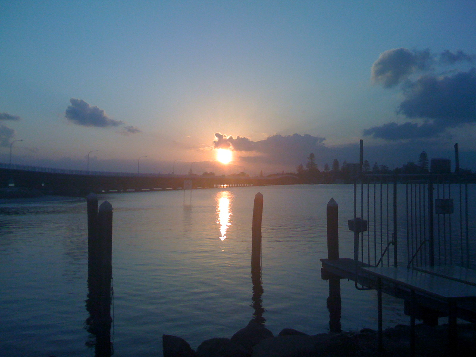 View of Forster, NSW, Australia